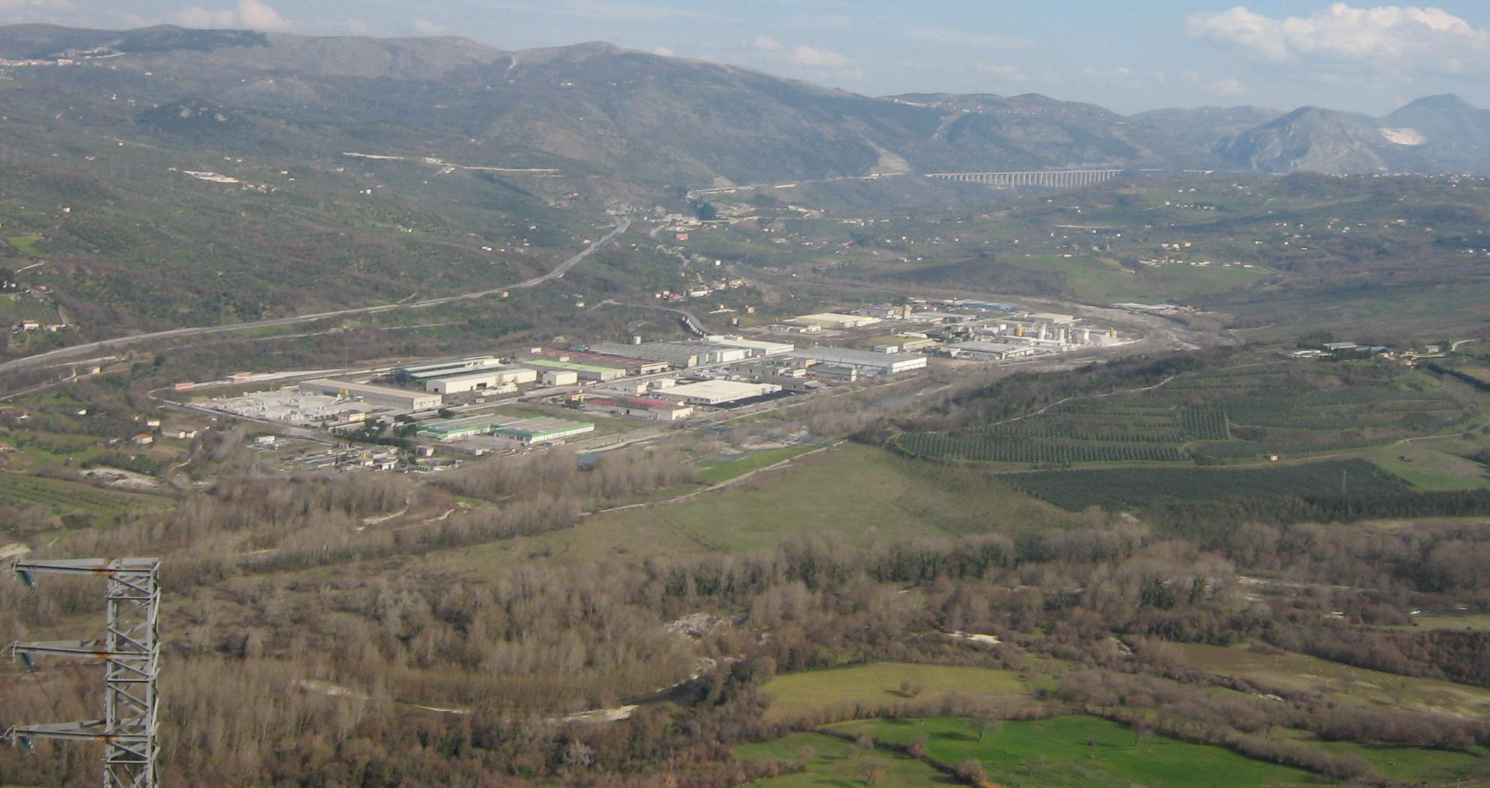 Panoramic view of the industrial area of Buccino. Photo made in Castelluccio Cosentino